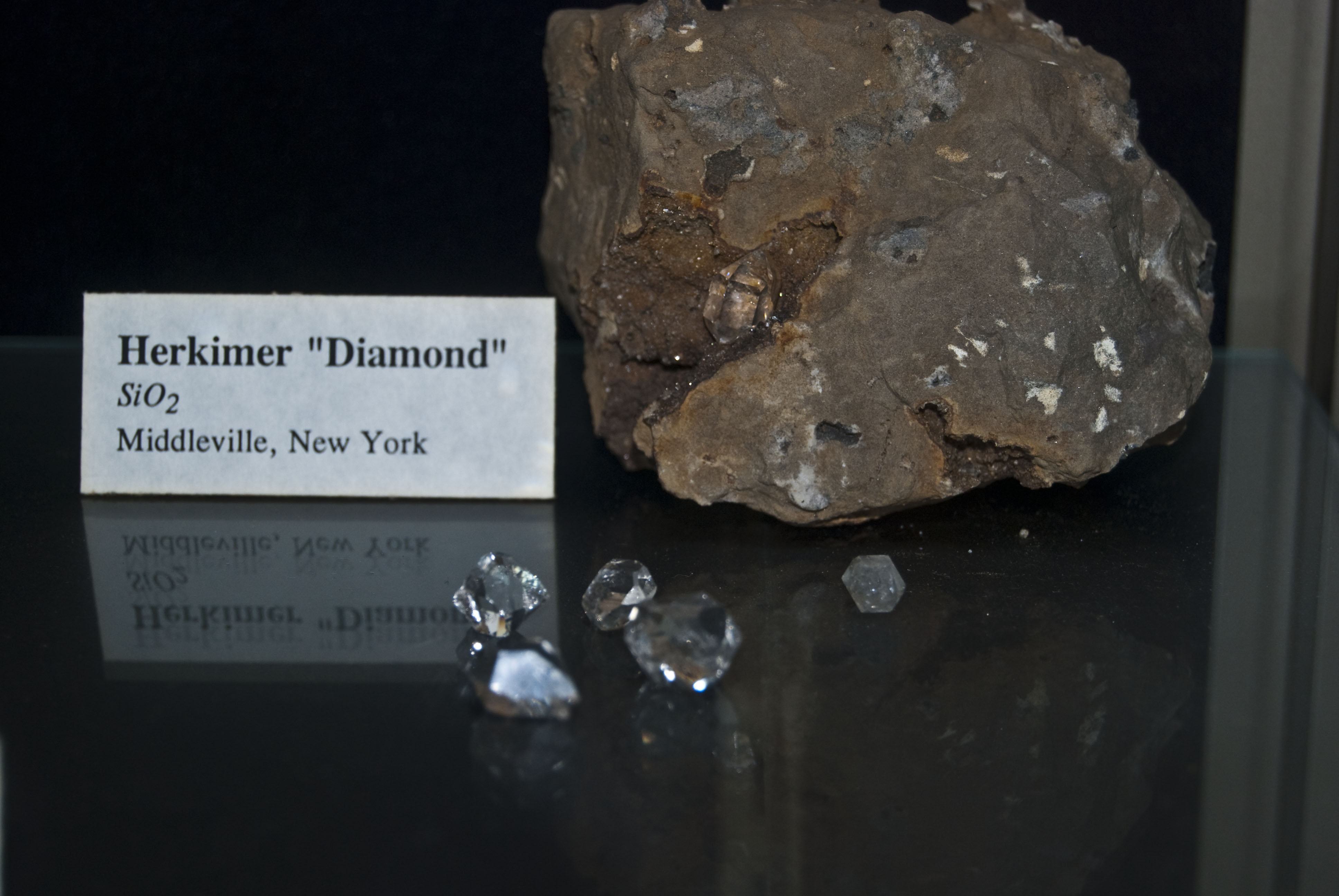 Norman and Gertrude Pendleton mineral collection Herkimer Diamond SiO2 Middleville, New York